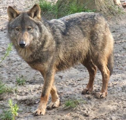 Is a crop of File:Canis lupus signatus (Kerkrade Zoo) 26.jpg, made for the purpose of infobox dislpay. Though the original showed the animal's whole body, the wolf was but a small part of the picture. This file has been extracted from another file: Canis lupus signatus (Kerkrade Zoo) 26.jpg GaiaPark Licomdag 022